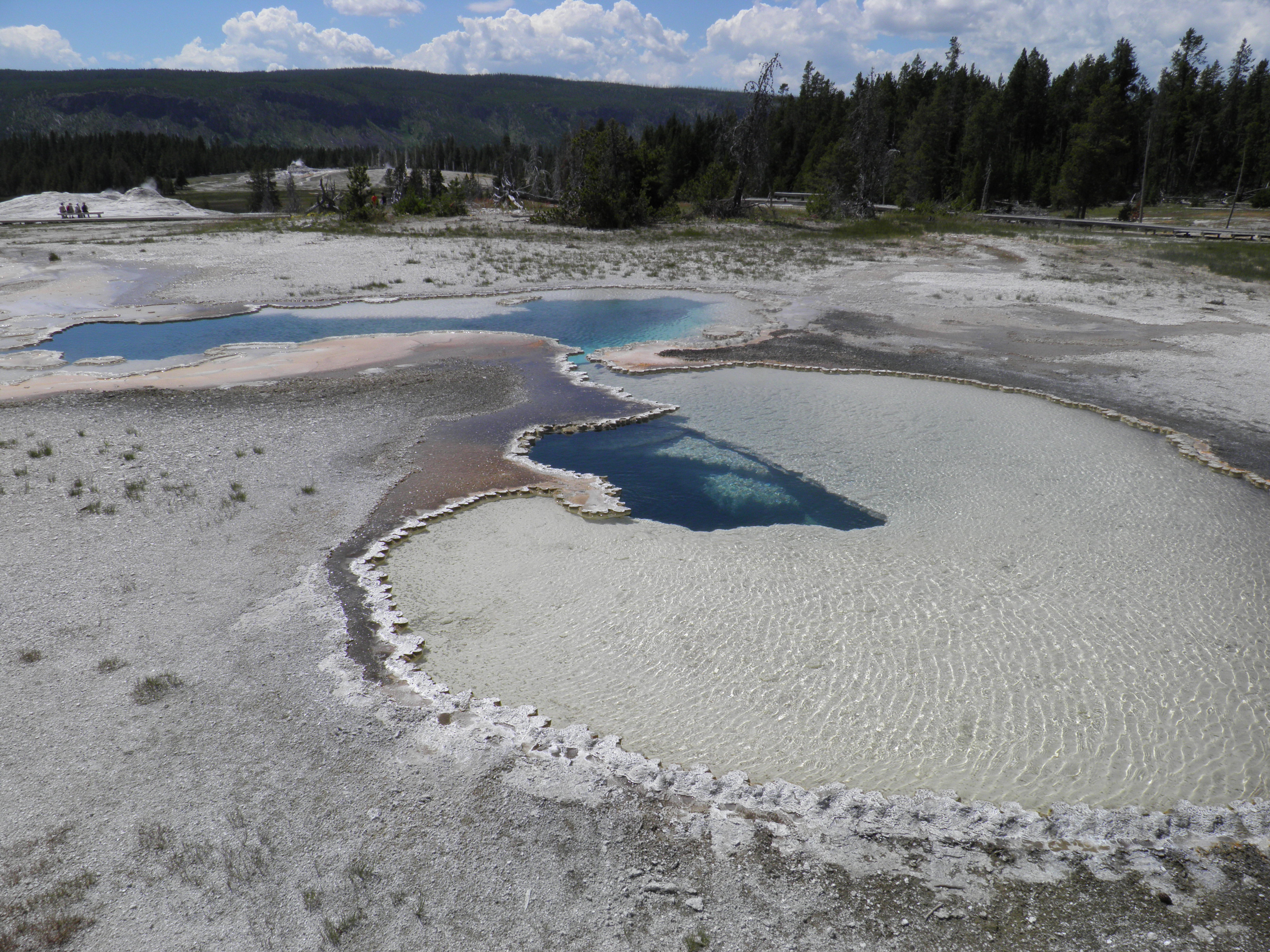 Doublet Pool in Upper Geyser Basin, Yellowstone Mational Park, Wyoming, USA.